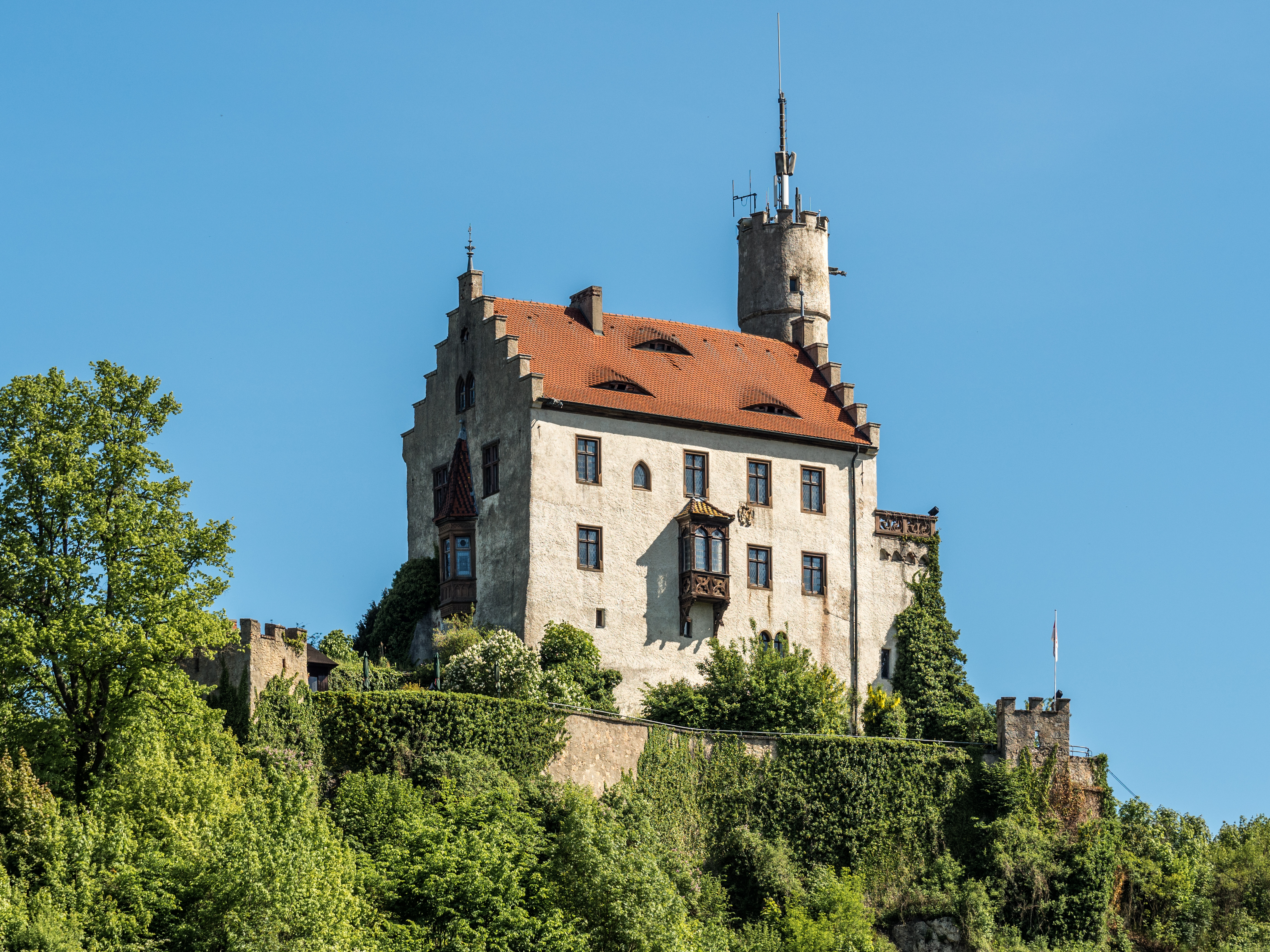 Gößweinstein castle